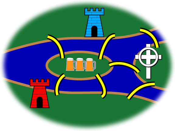 This is a rendering of the problem, Seven Bridges of Königsberg, using identified nodes. This is not the classic problem, in which the nodes are unidentified. I created this image. — Xiong (talk) 18:15, 2005 Mar 19 (UTC)